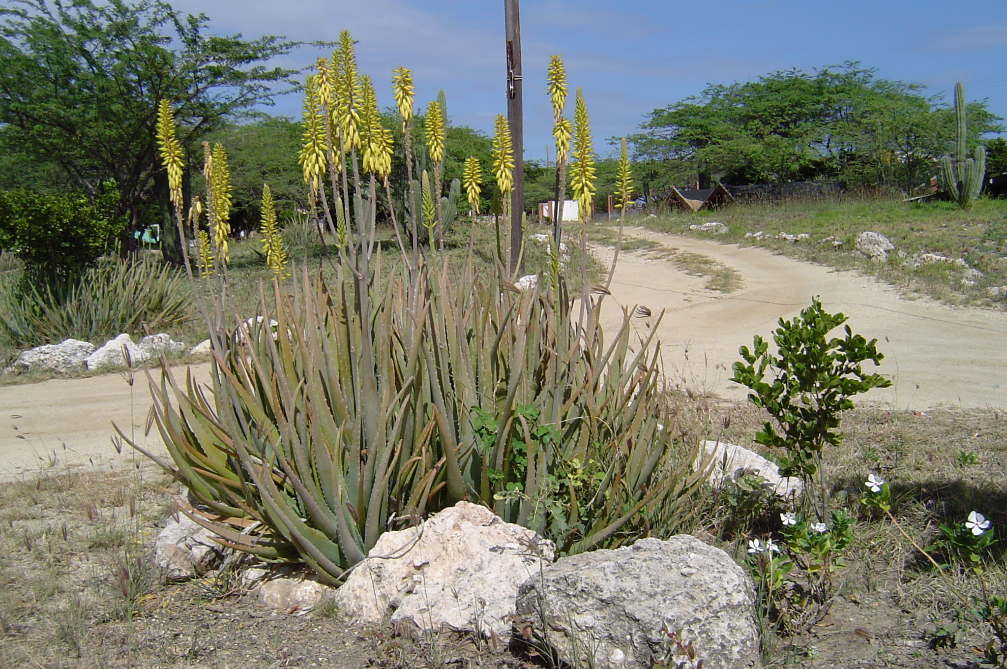 Aruba is known for its Aloe vera